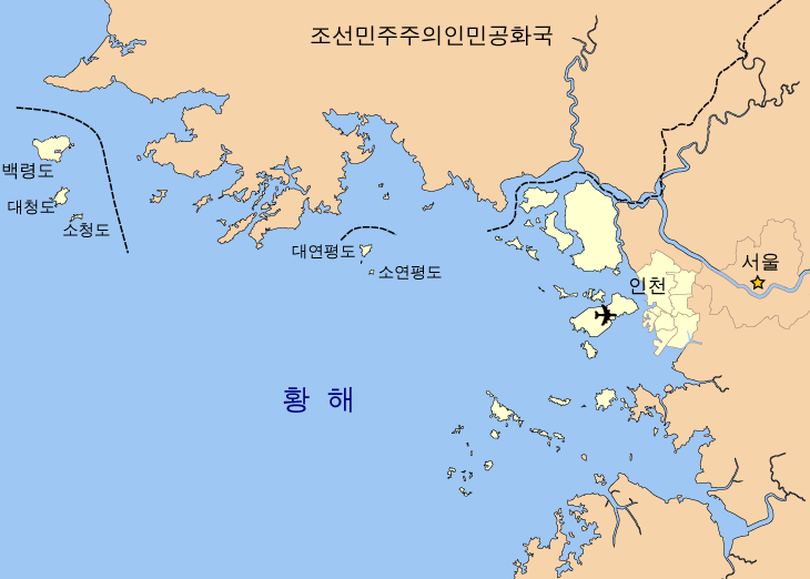 Western 5 islands of South Korea(Seohae-o-Do) in Yellow Sea.